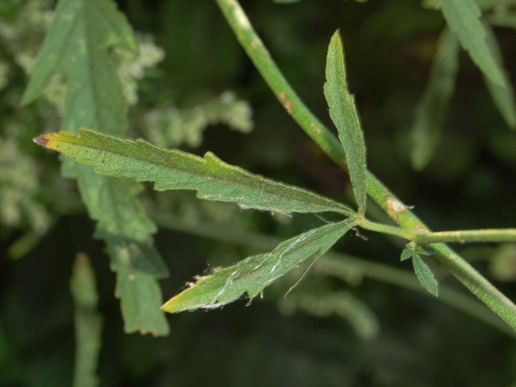 Althaea cannabina - Pian dei Grilli, Genova, Italy